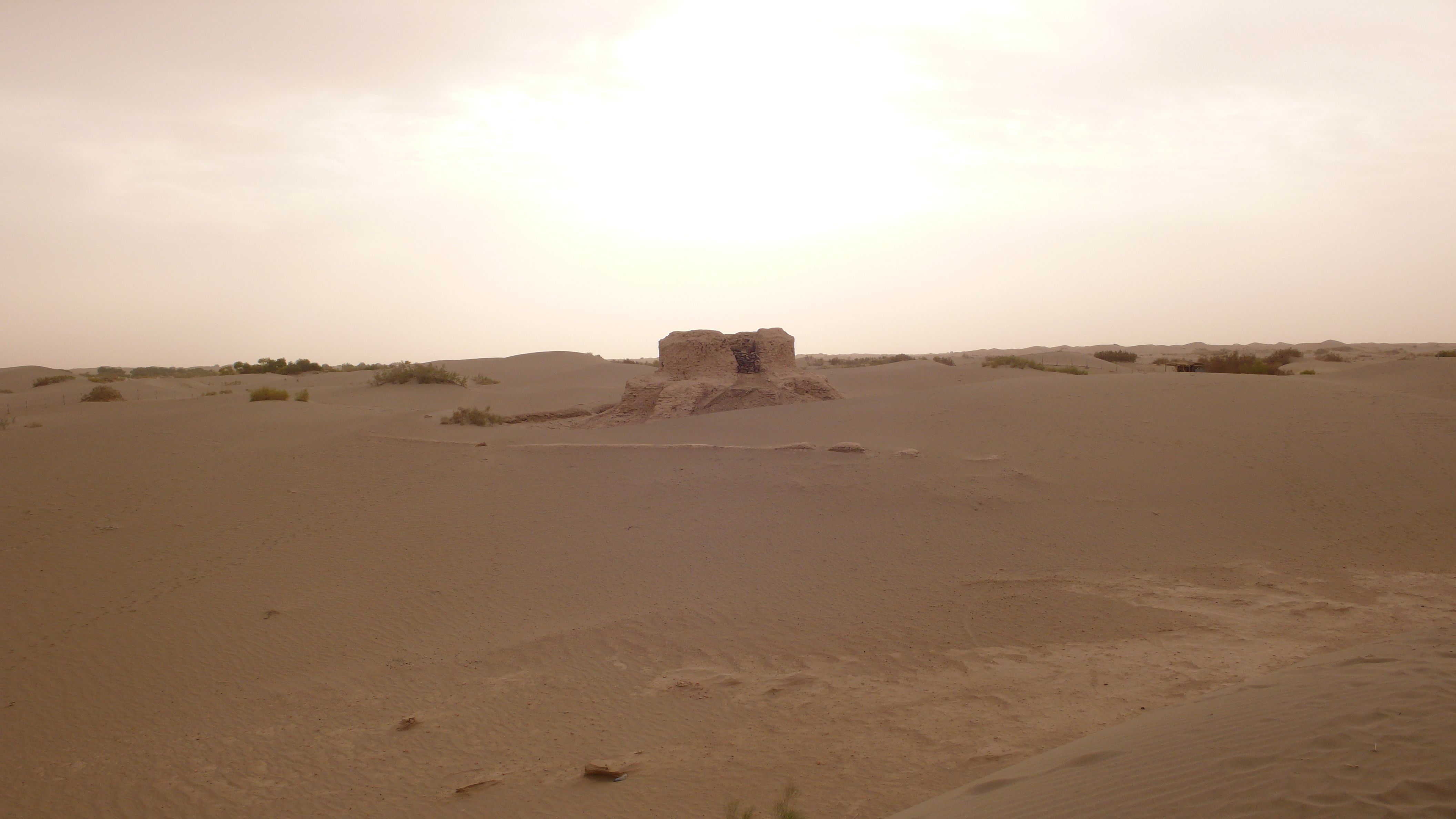 Rawak Temple in the Taklimakan desert (close to Hotan / Khotan)